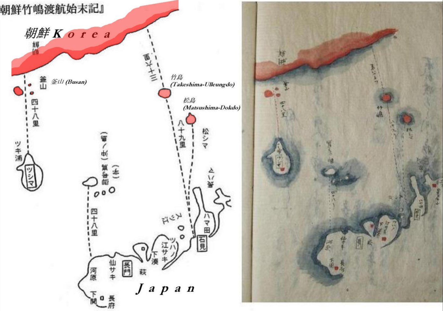 old history